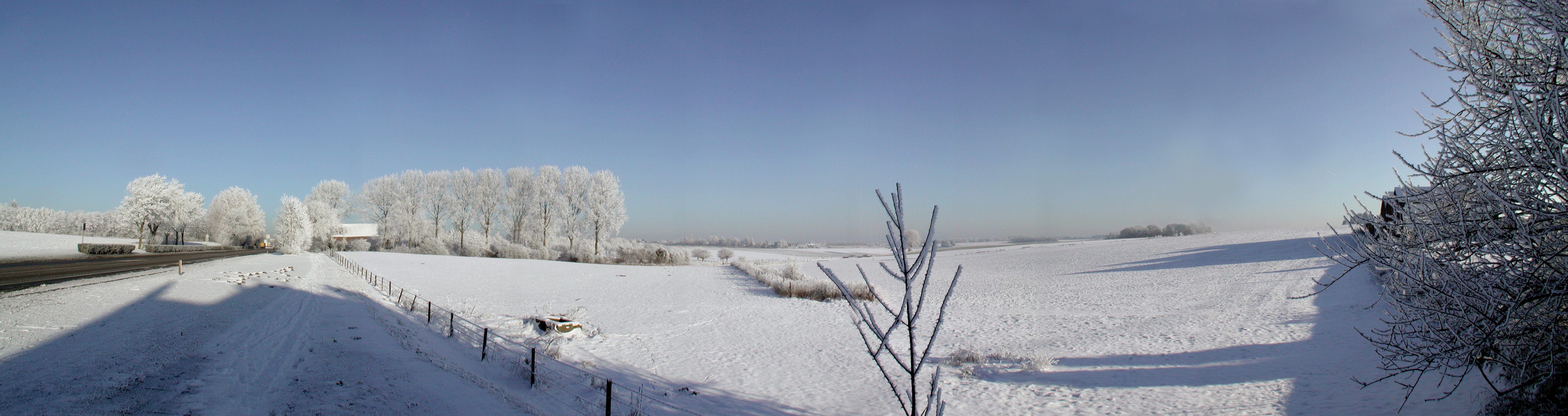 A very cold day on Waterloo field,in Belgium